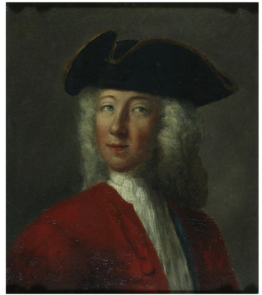 English antiquarian